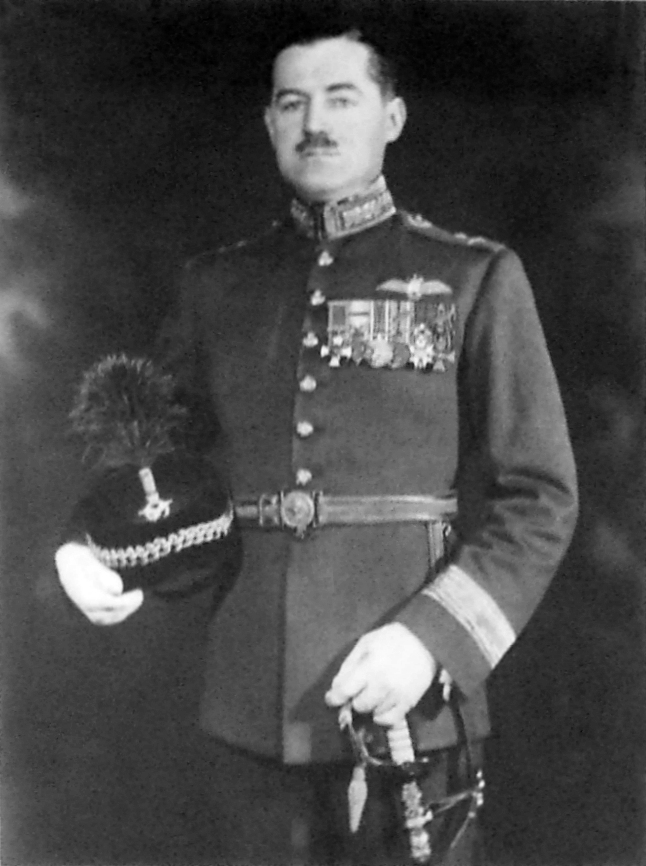 Air Commodore Sir John Tremayne Babington. This image is a digital reproduction of an original photograph which was taken between 1 January 1934 and 1 July 1937. The uploader digitized the photograph. Source - uploader's personal collection.